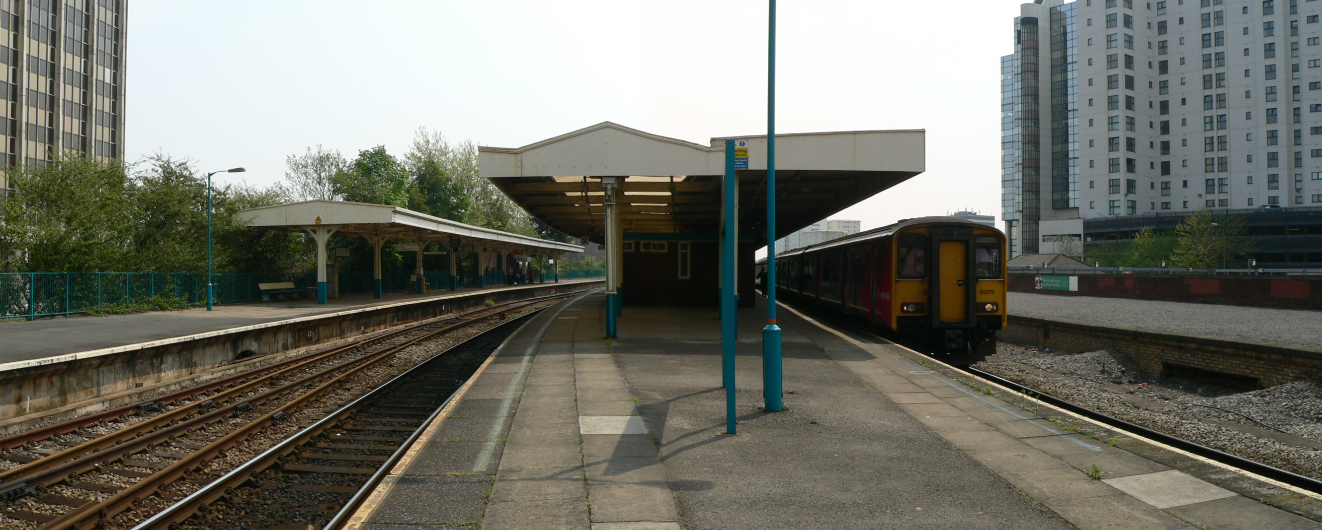 A merged view looking south from the northern end of Cardiff Queen Street railway station, at platform 1 on the right is Arriva Trains Wales Class 150 DMU 150279 with a northbound Valley Lines service to Bargoed (I think)